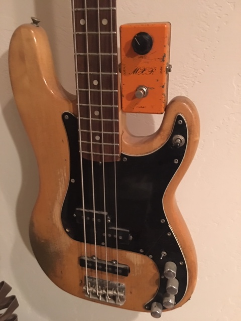 The Fender P/J Bass designed by Rob Grange in 1973, the first documented P/J Bass used professionally in live concerts and in the studio on recorded albums with CBS/Epic Records.